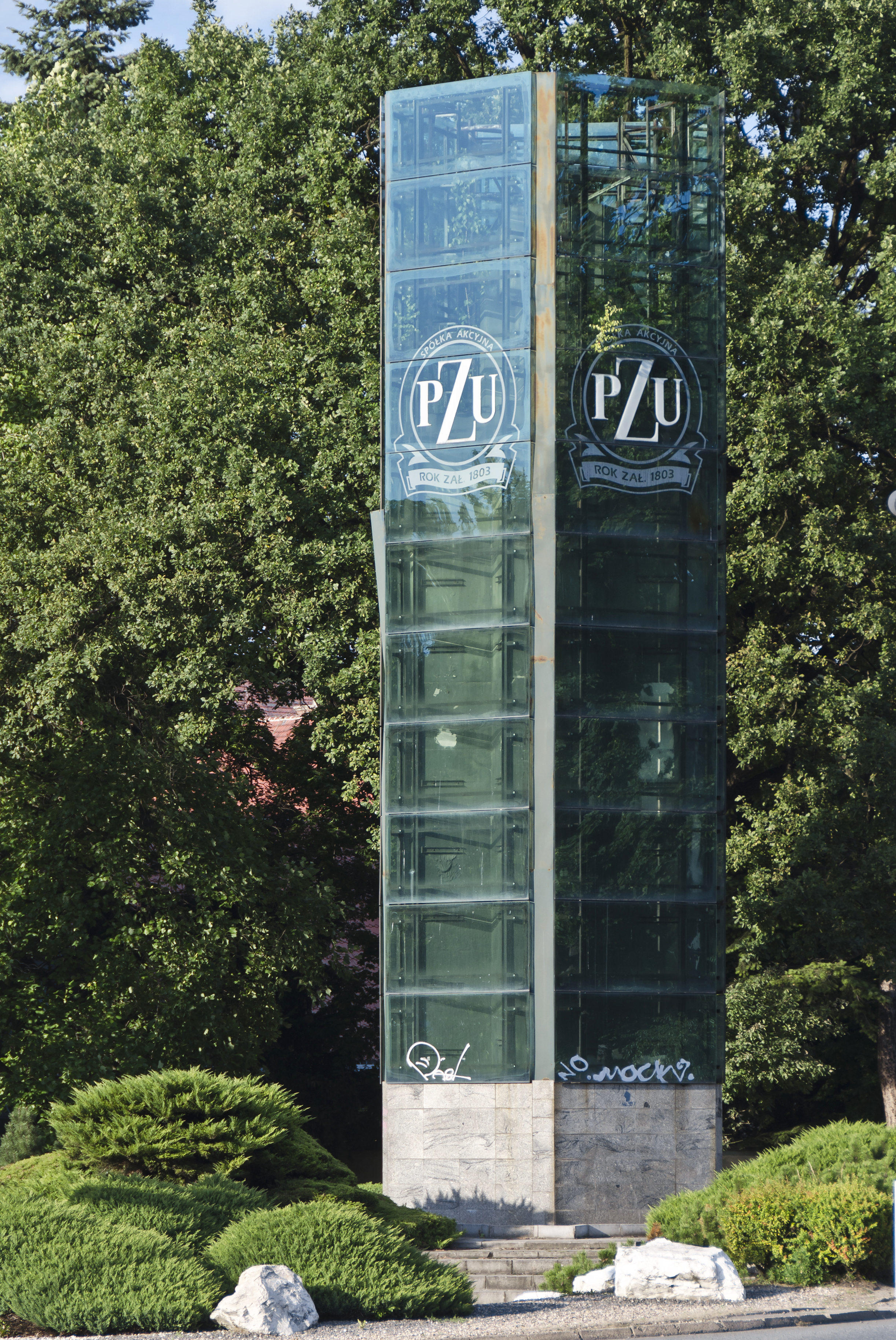 Kłodzko, Daszyńskiego Street, PZU column